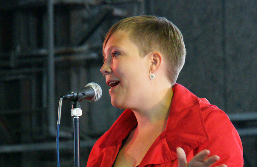 Astrid Krag, Danish politician and MP from Socialist People's Party (SF)